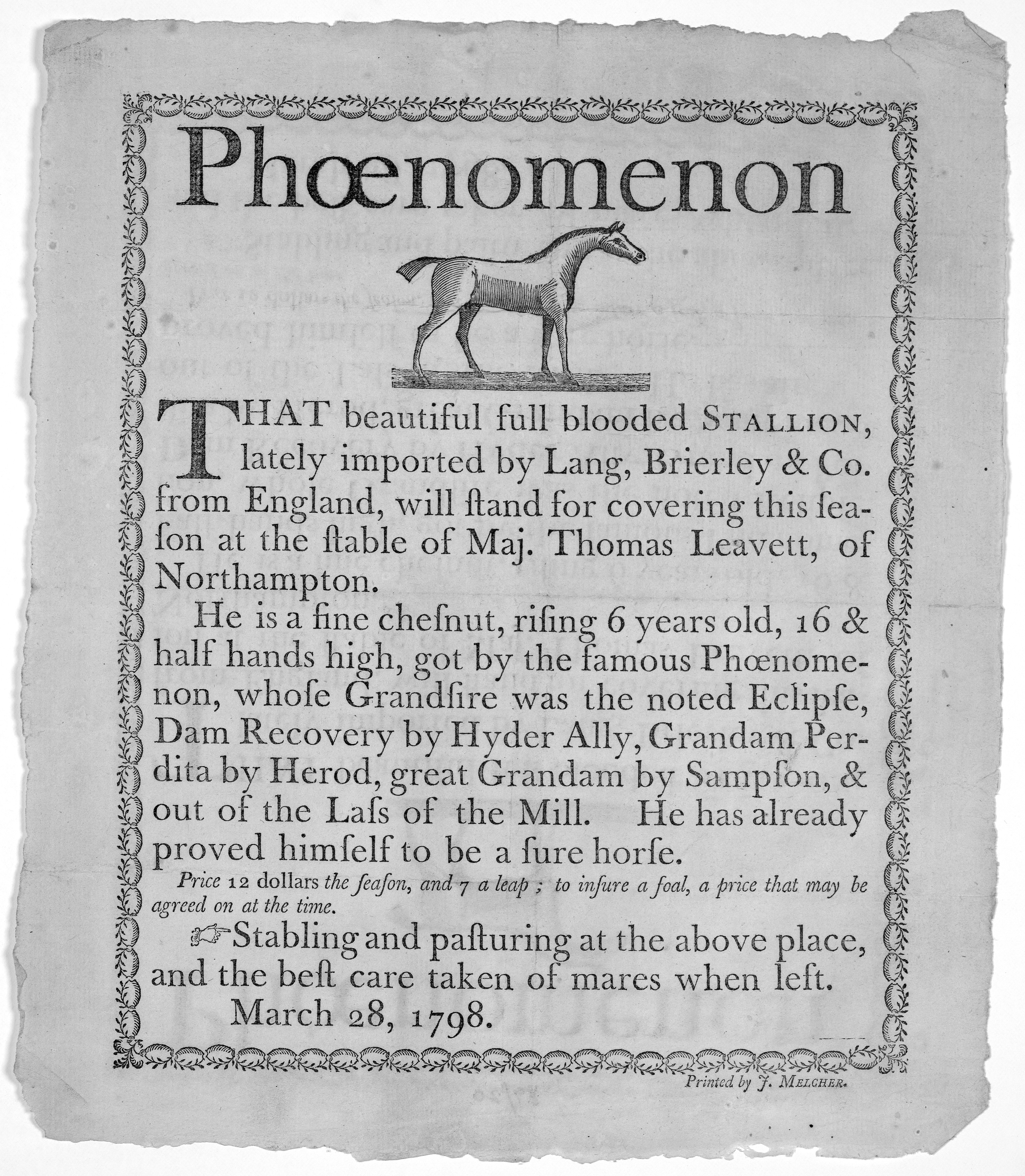 Broadside, Northampton, Massachusetts. "That beautiful full-blooded stallion imported by Lang, Brierly & Co. from England, will stand for covering this season at the stable of Major Thomas Leavett, of Northampton." From the collection of the Library of Congress, Washington, D.C. Published at Portsmouth, England, 1798.